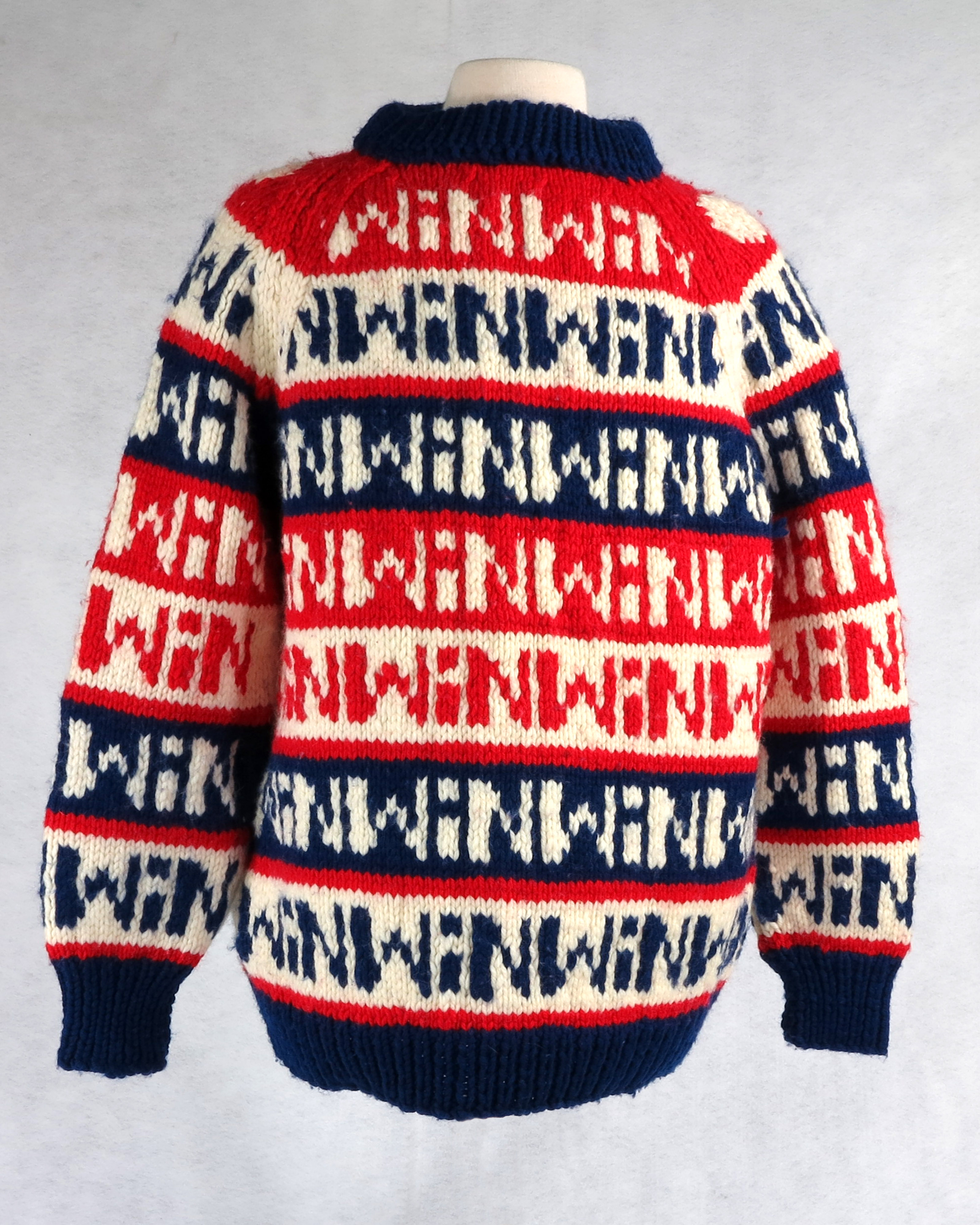 Hand-knit, “WIN”- patterned sweater sent to President Gerald R. Ford for support of his Whip Inflation Now campaign.